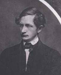 A daguerrotype of Elihu Doty, American missionary to China